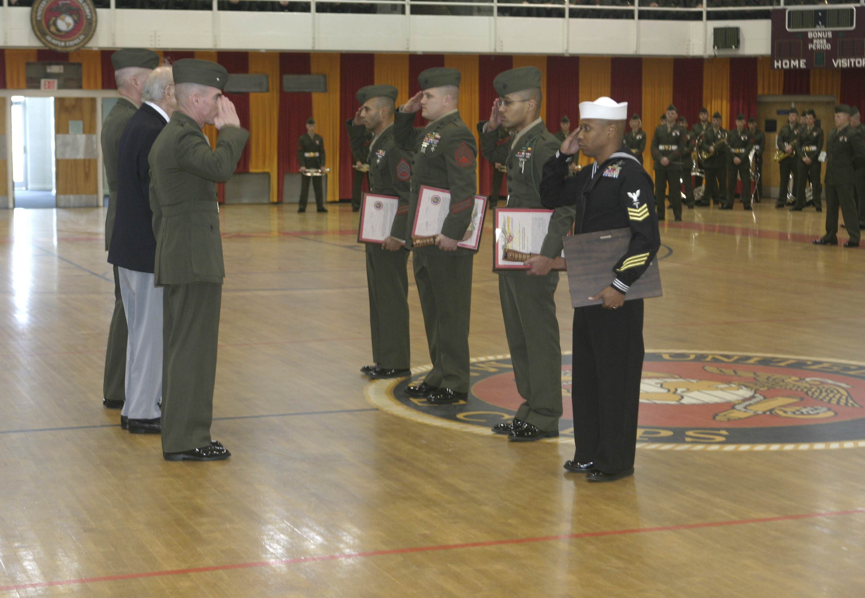 MARINE CORPS BASE CAMP LEJEUNE, N.C. - Marines and a sailor within the 2nd Marine Division salute Brig. Gen. Joseph McMenamin, 2nd Marine Division's assistant commander, after being presented numerous awards recognizing unit and individual excellence in leadership, marksmanship and job performance. Members of the 2nd Marine Division Association were on hand Feb. 2-3 to help commemorate the 65th birthday of the "Follow Me" division and pay their respects to fallen warriors past and present.